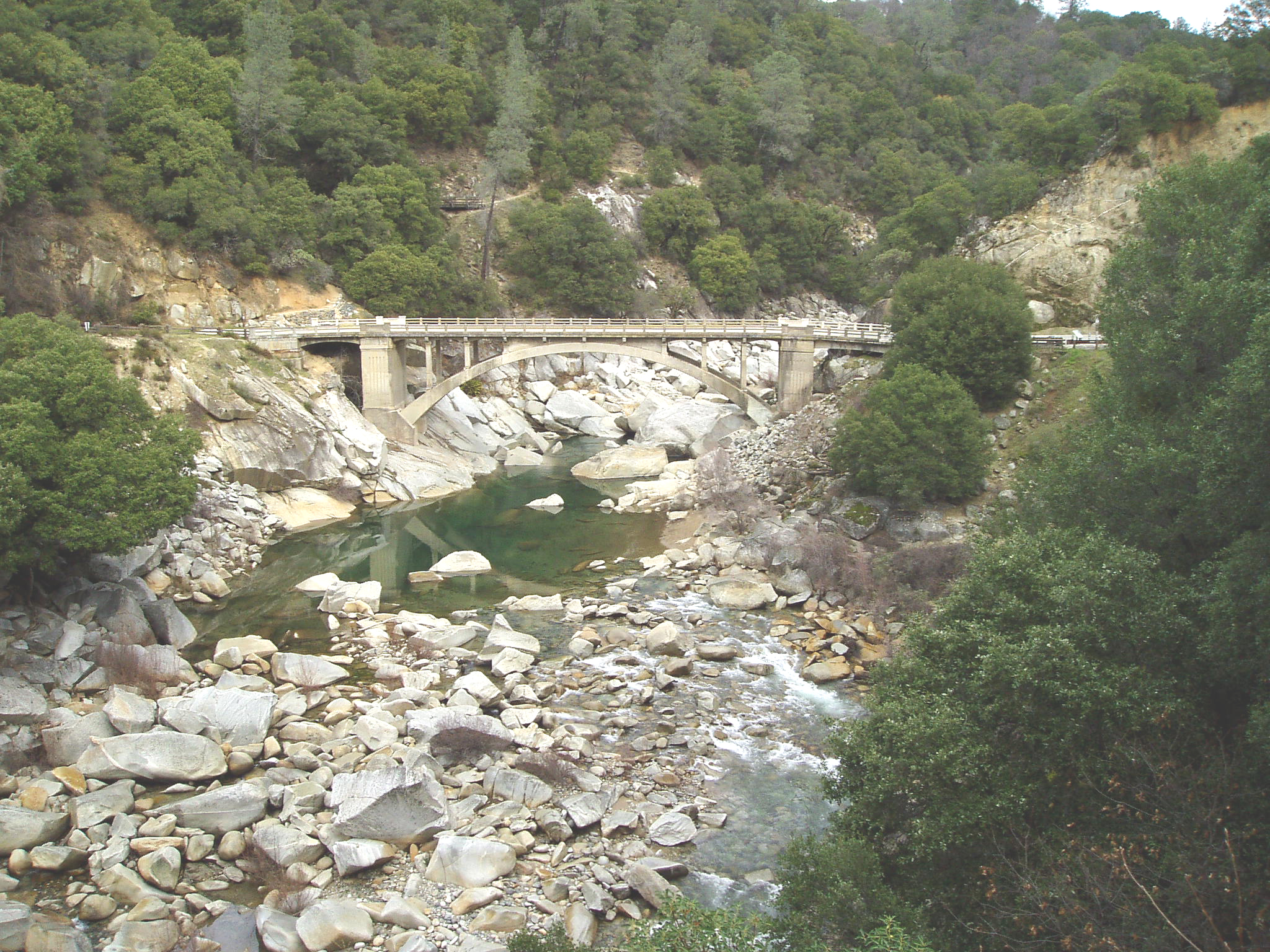 The South fork of the Yuba River as it intersects with Hwy 49 in Nevada County, California